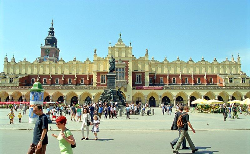 Krakow (Poland) Sukiennice on the Marquet Square